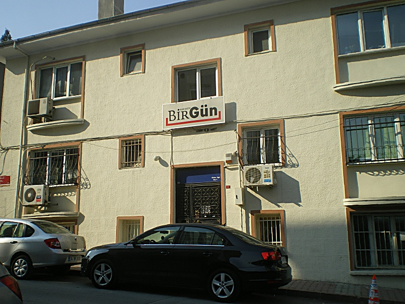 The former headquarters of the Turkish daily BirGün in Mecidiyeköy, Istanbul